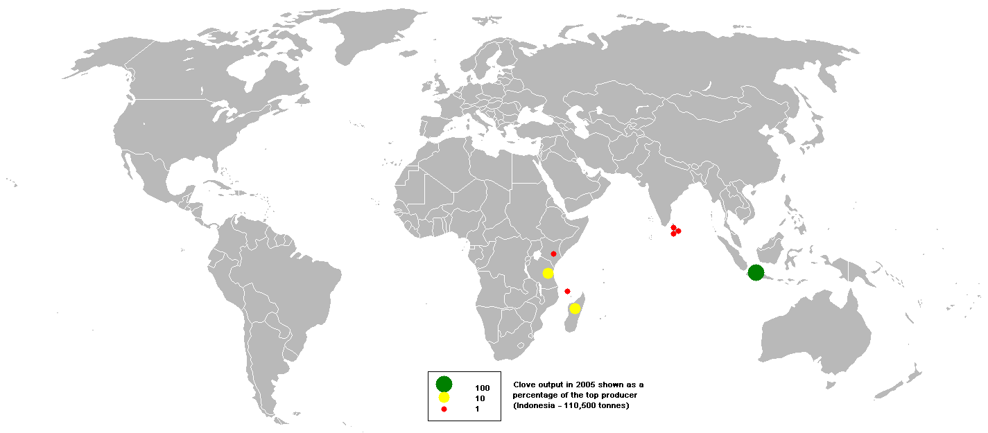 This bubble map shows the global distribution of clove output in 2005 as a percentage of the top producer (Indonesia - 110,500 tonnes). This map is consistent with incomplete set of data too as long as the top producer is known. It resolves the accessibility issues faced by colour-coded maps that may not be properly rendered in old computer screens. Data was extracted on 14th June 2007 from Based on :Image:BlankMap-World.png